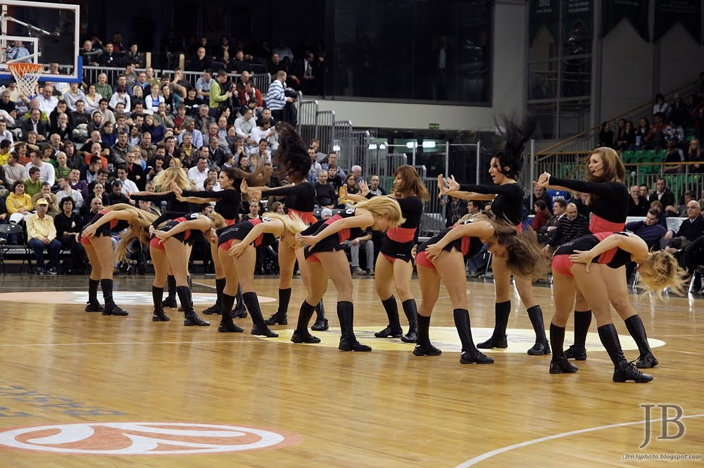 KK Union Olimpija vs Maccabi Tel Aviv in Hala Tivoli, Euroleague 2009/10